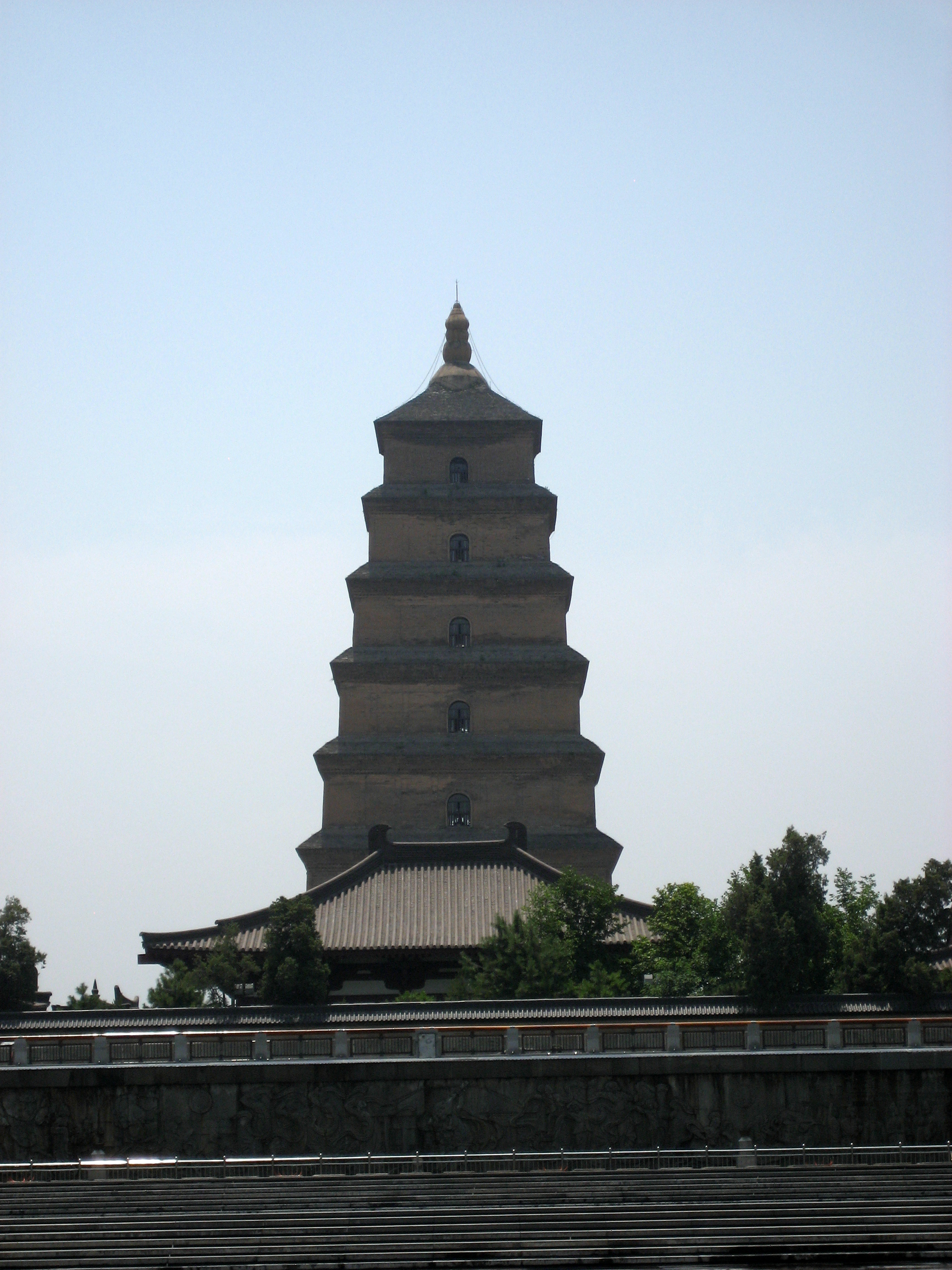 Giant Wild Goose Pagoda